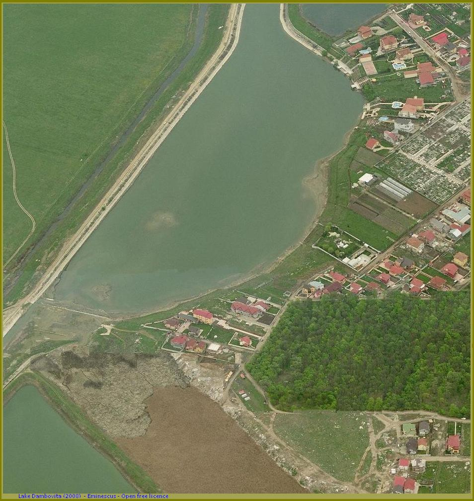 Lake Dambovita at Aerial Show 2008